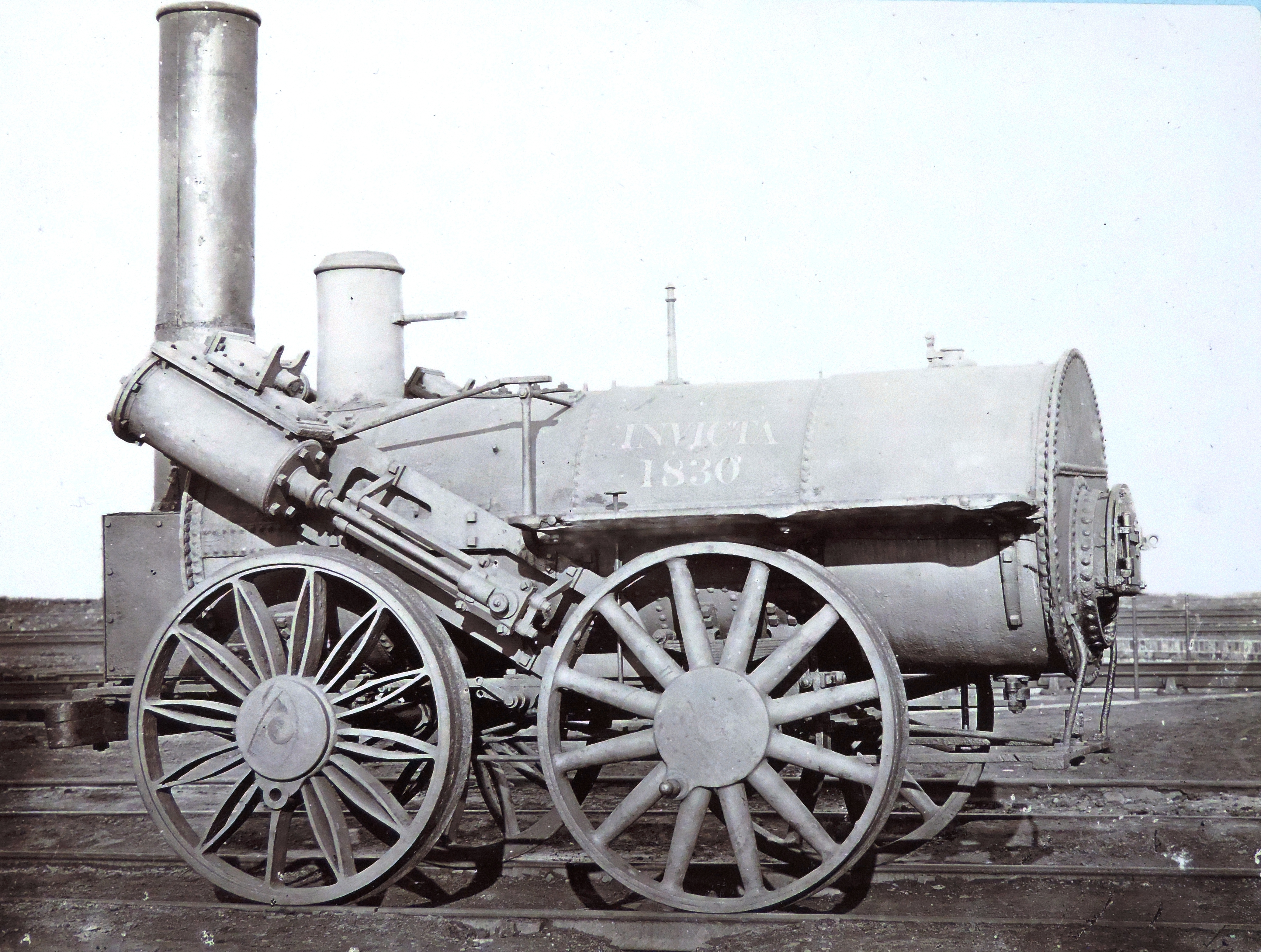 'Invicta (locomotive)' (Q12060780).